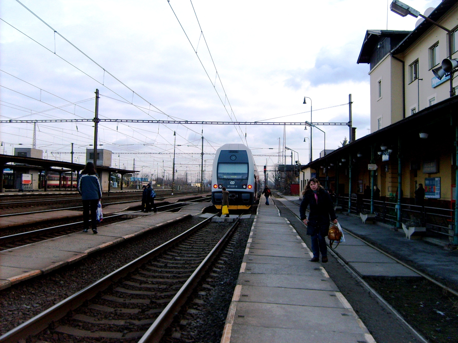 Main Railway station Nymburk with the Prague metropolitan train City Elephant on the line S2 Praha - Lysá nad Labem - Kolín.